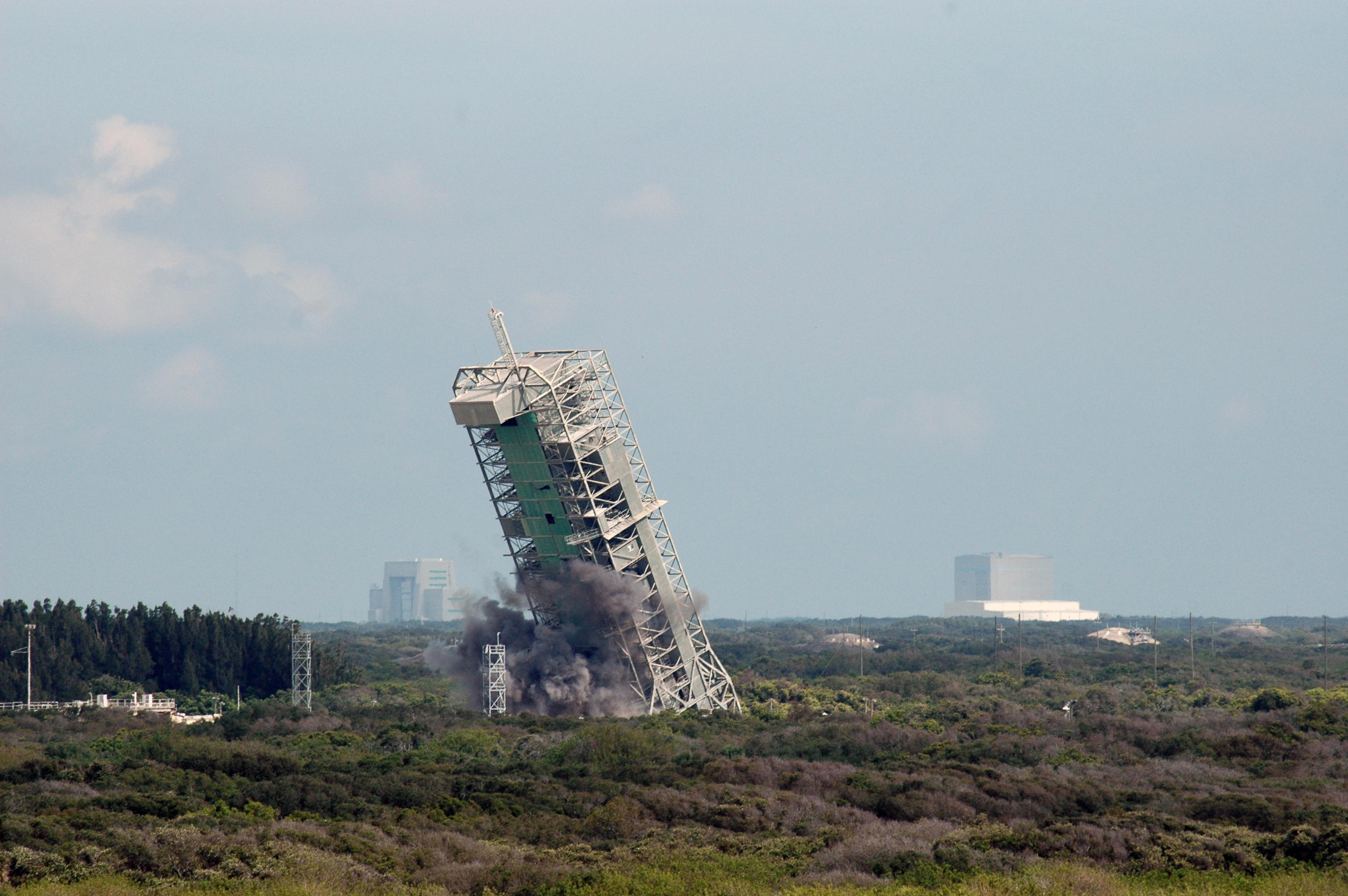 KENNEDY SPACE CENTER, FLA. -- The 209-foot-tall mobile service tower on Pad 39-A of Space Launch Complex 36 on Cape Canaveral Air Force Station careens to the left after 122 pounds of explosives eliminated the base. The tower is one of two that were identified for demolition. The old towers are being toppled as part of the ongoing project to demolish the historic site to prevent corrosion from becoming a safety concern. A majority of the steel will be recycled and the rest will be taken to the landfill at CCAFS. Complex 36 was the birthplace of NASA's planetary launch program. It was built for the Atlas/Centaur development program and was operated under NASA's sponsorship until the late 1980s. Complex 36 hosted many historic missions over the years including Surveyor that landed on the moon and Mariner that orbited Mars and included one to Mercury. Two of the most historic launches were the Pioneer 10 and 11 space probes that were launched to Jupiter and are now outside of the solar system in interstellar space. Also, the historic Pioneer Venus spacecraft included an orbiter and a set of probes that were dispatched to the surface. While Launch Complex 36 is gone, the Atlas/Centaur rocket continues to be launched as the Atlas V from Complex 41.